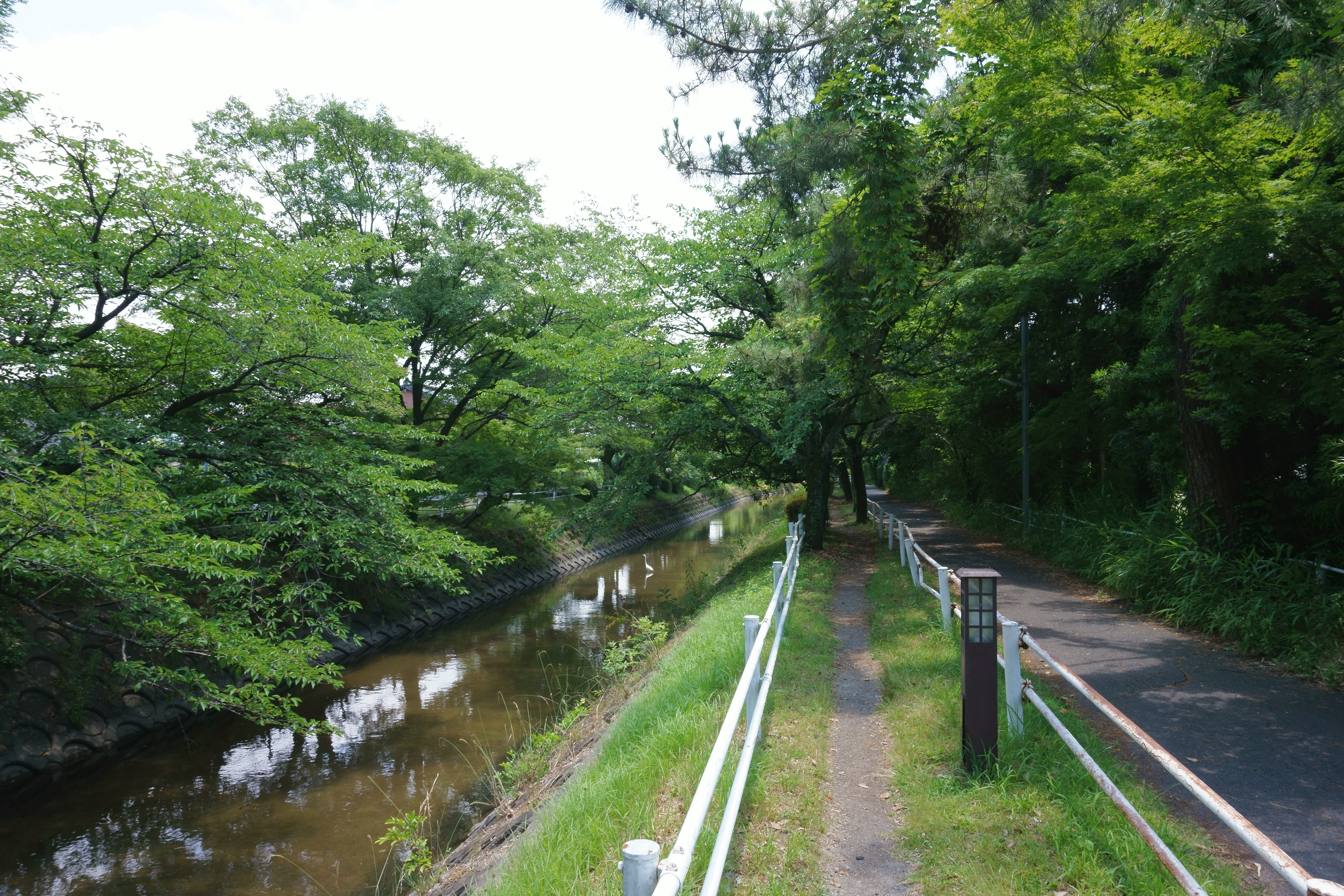 Pedestrian trail at right side of Tafuse River between Tafuse and Midorikōji, Saga city, Saga prefecture, Japan.